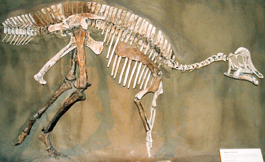 The skeleton of a Hypacrosaurus at the Royal Tyrell Museum.